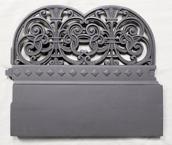 Pequot Library baseboard completed and restored by Newman's LTD.